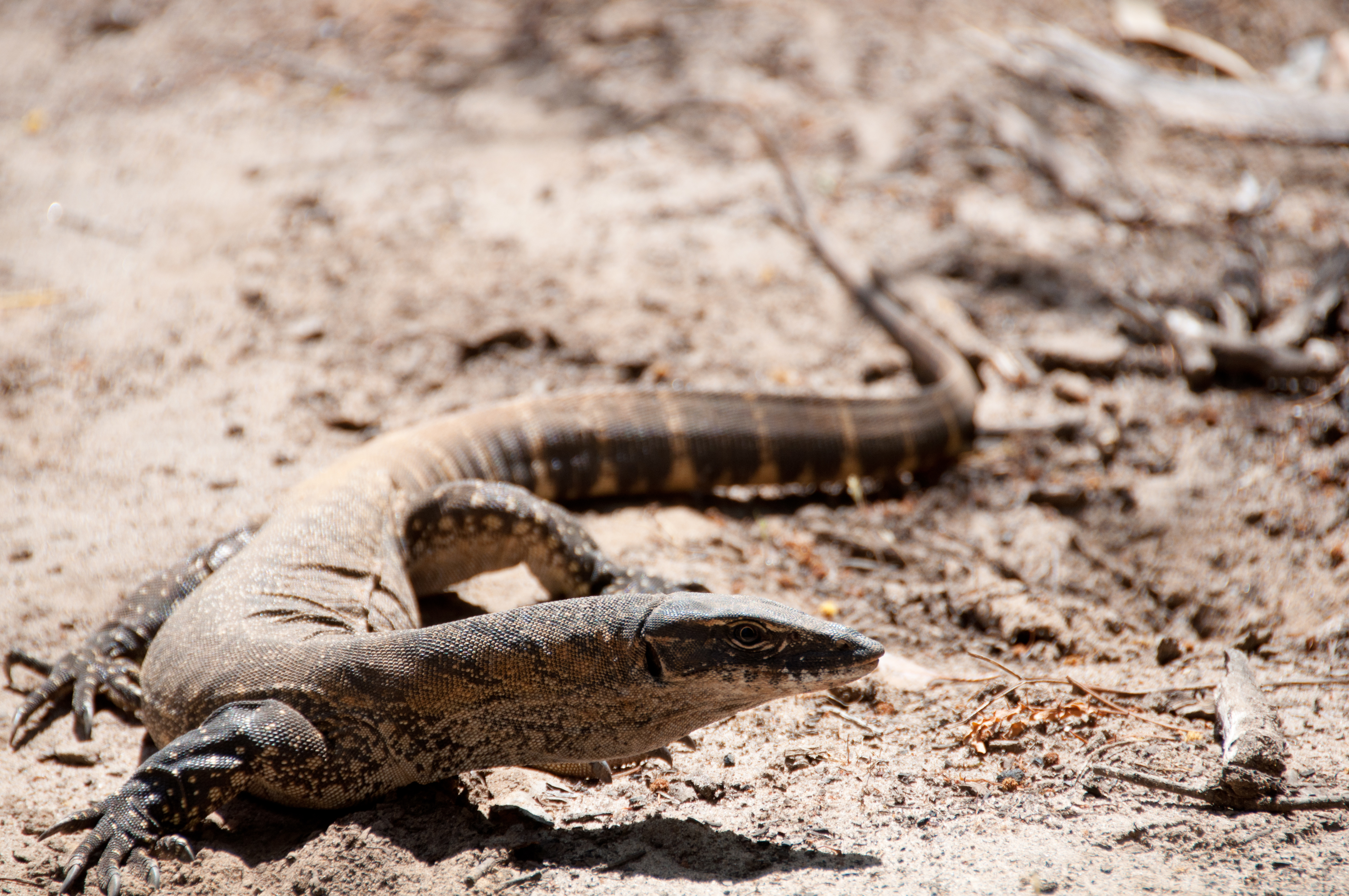 fifth of seven